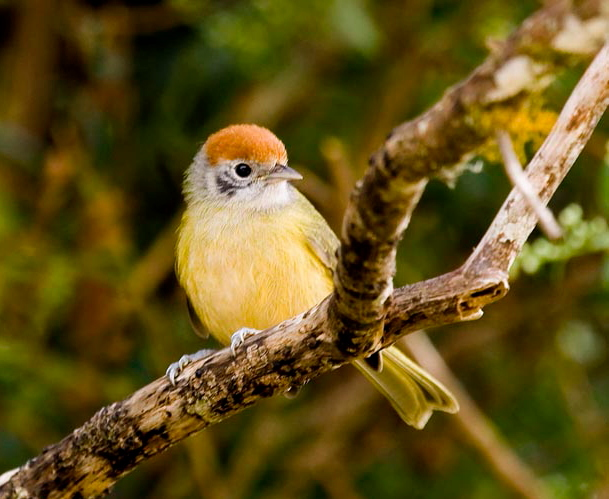 Hylophilus poicilotis at Itatiaia National Park (Itamonte, Minas Gerais, Brazil)